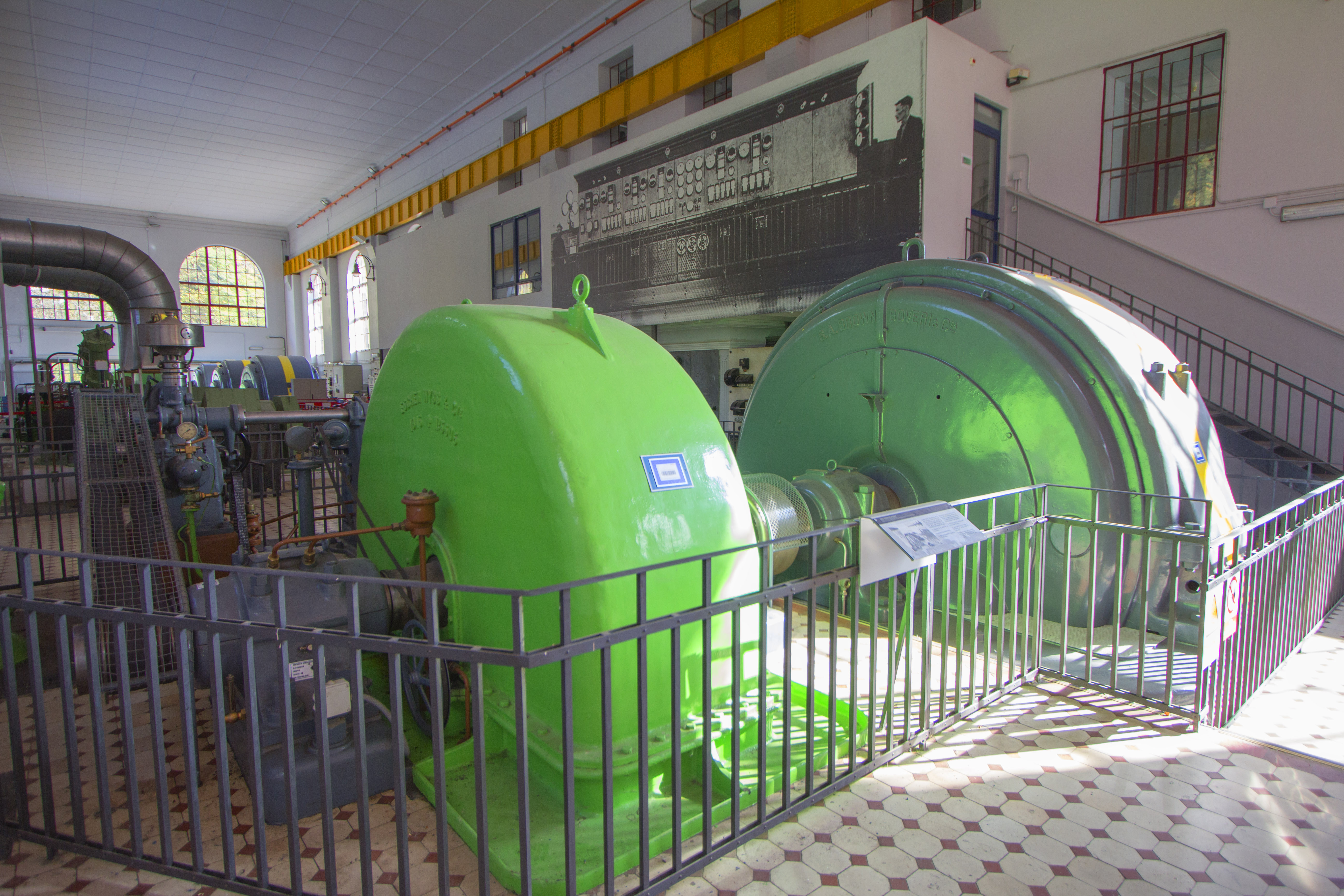 Escher Wyss turbine and Brown Boveri alternator in Capdella hydropower plant (Catalonia)